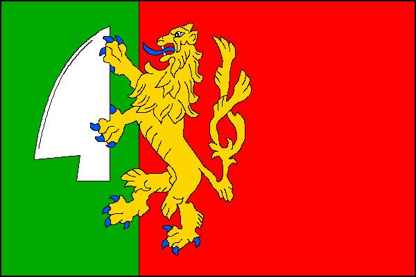 Flag of Nové Lublice, Opava District